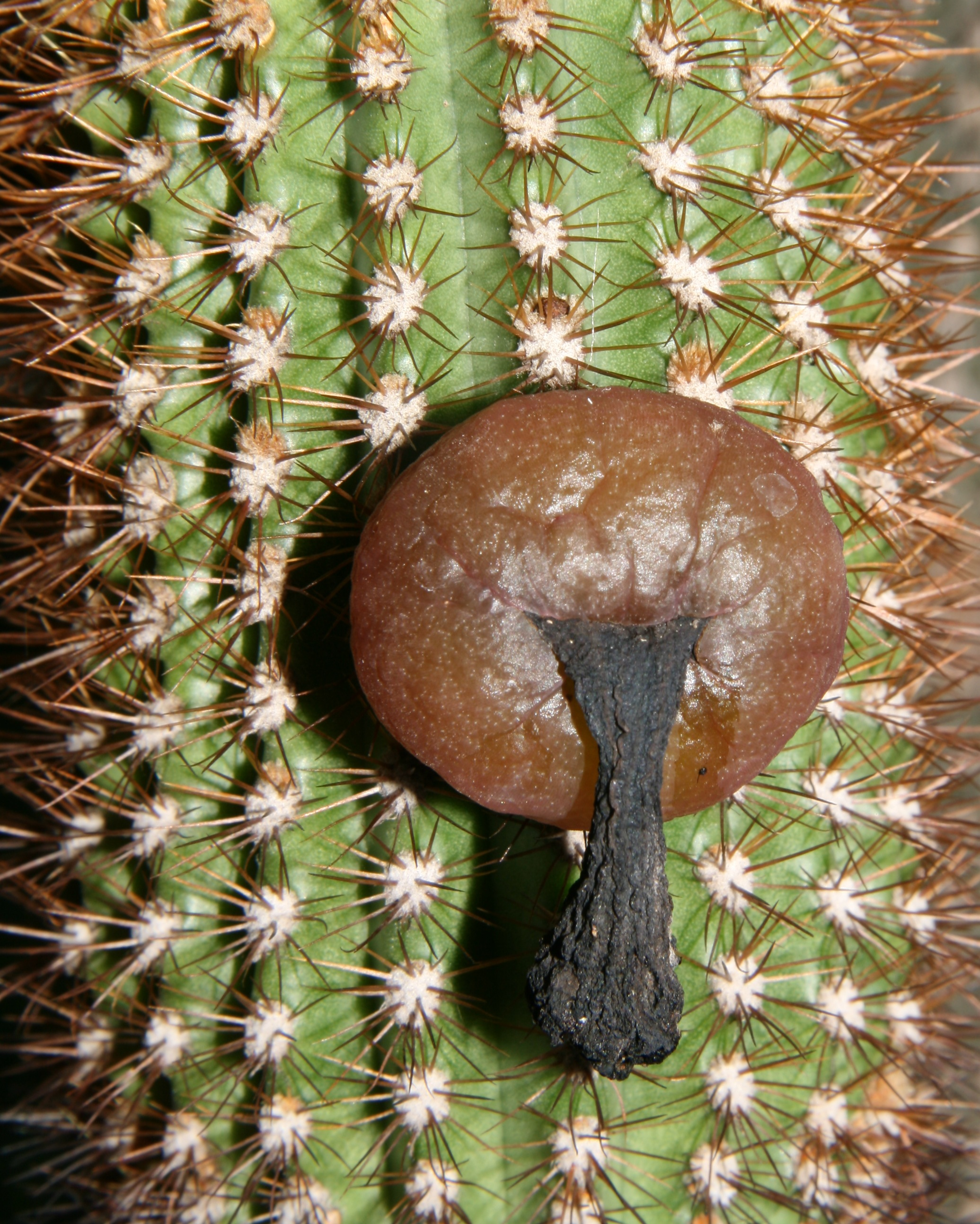 plant from Gaturiano/Piaui, Brasil